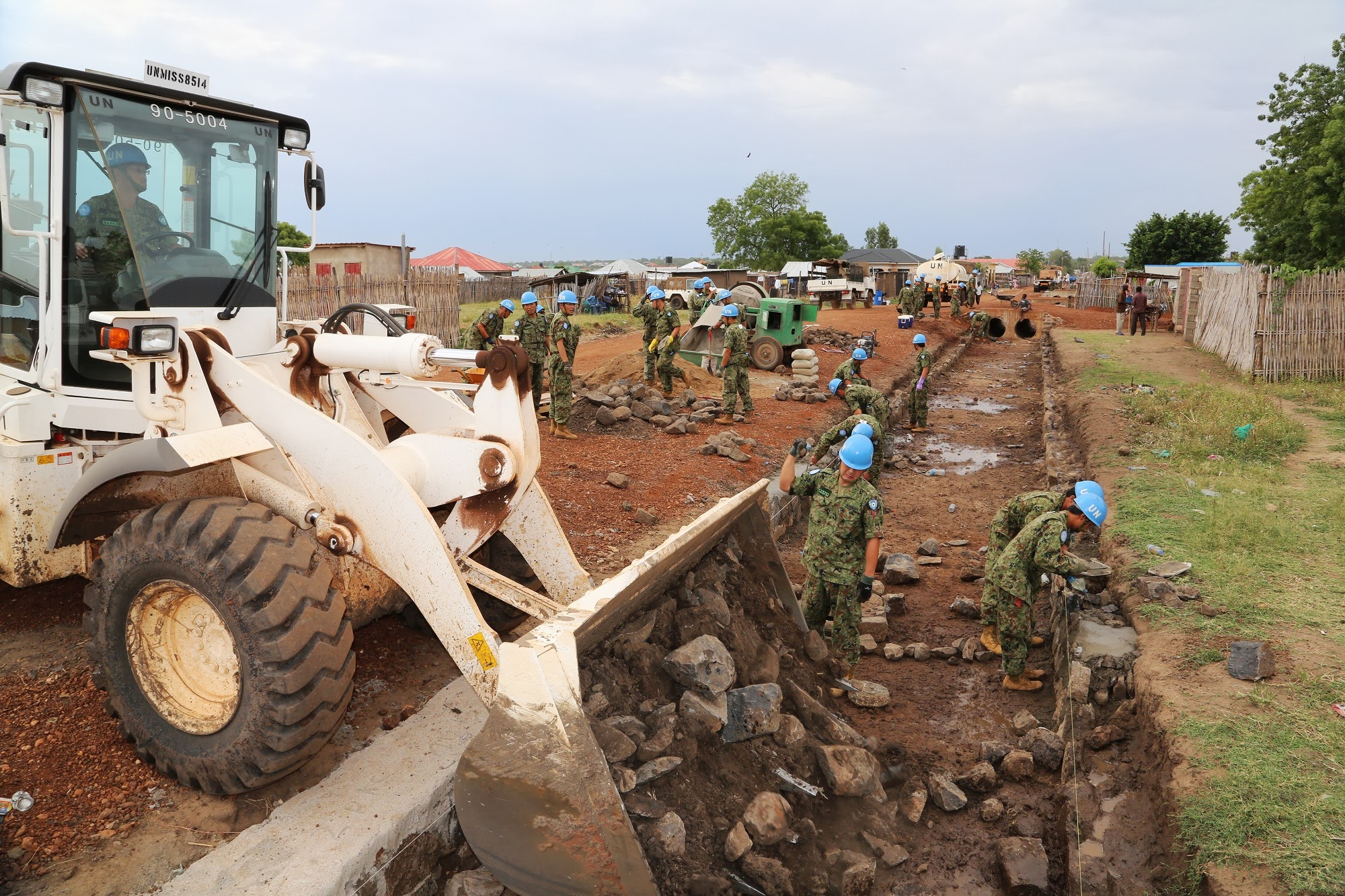 United Nations Mission in South Sudan